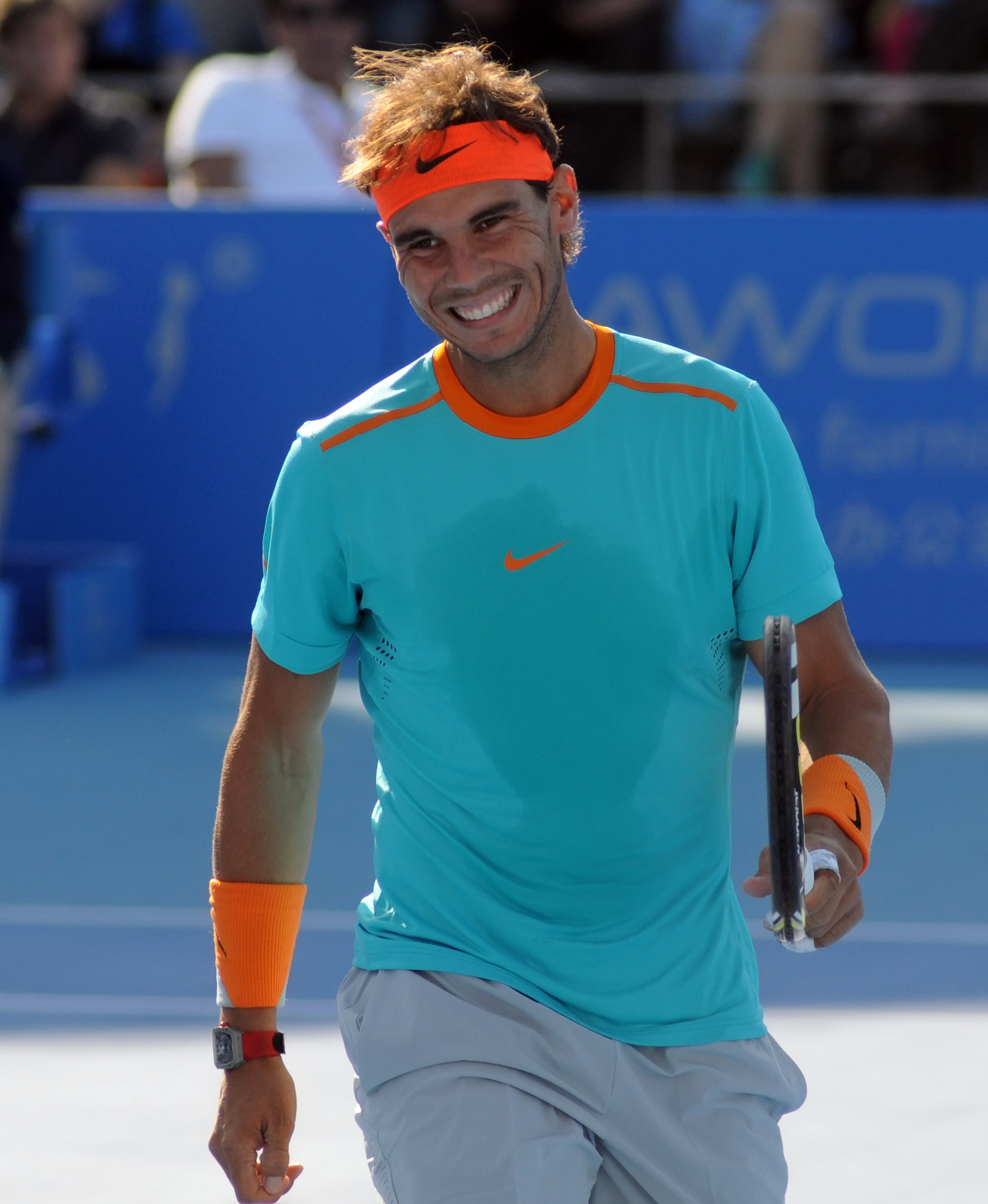 Rafael Nadal at the 2014 China Open